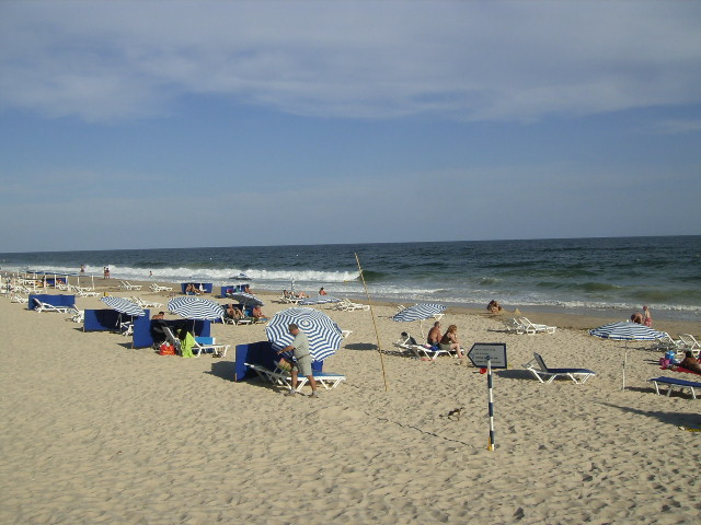 Beach "Praia do Barril" on the island "Ilha de Tavira", Ria Formosa, Algarve, Portugal